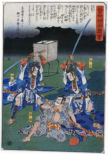 Soga brothers killing Suketsune